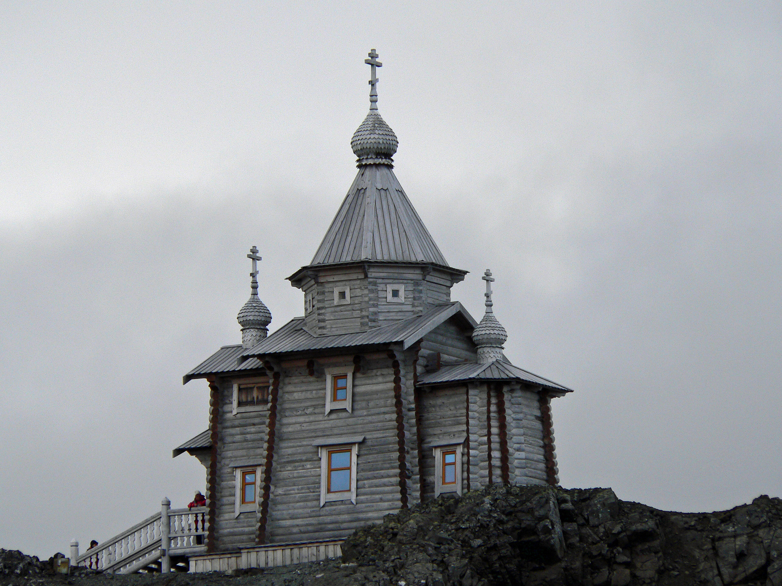 Church of the Bellingshausen base on King George Island